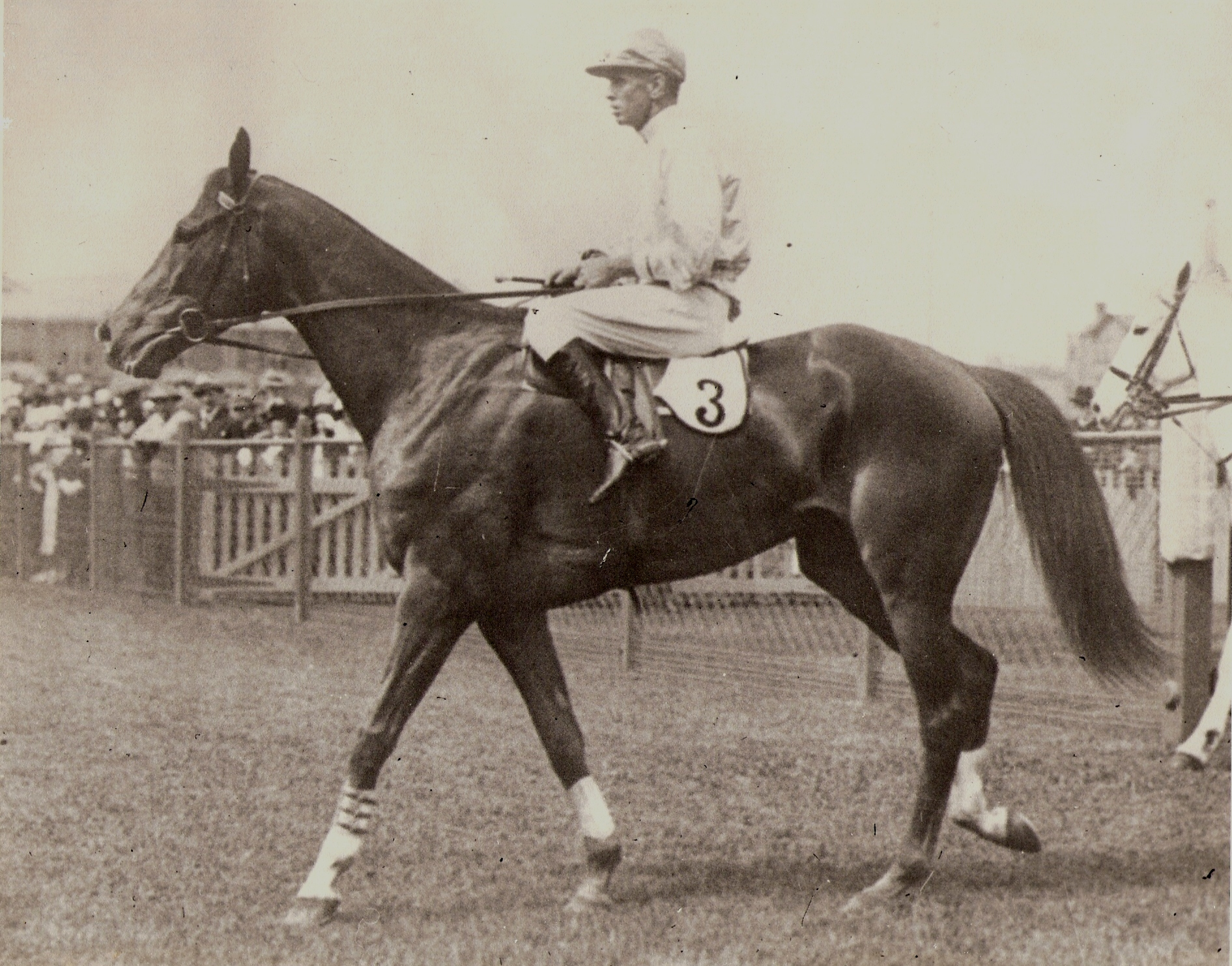 LOUGH NEAGH AT RANDWICK JOCKEY FRED SHEAN